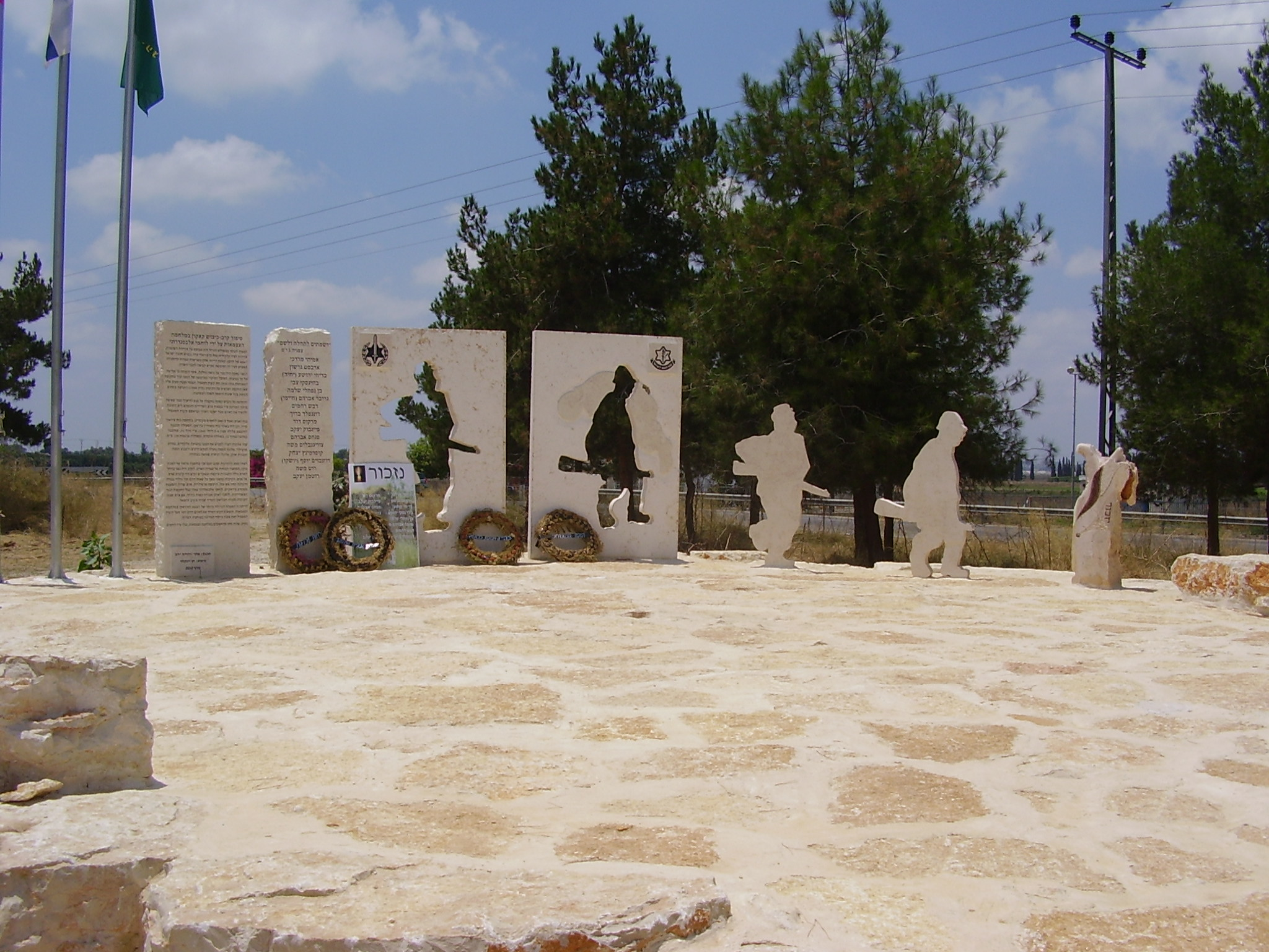 independence war memorial in qaqun